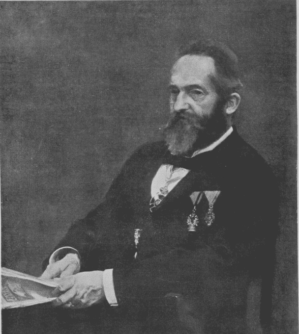 Portrait of Jan Otto (1841 - 1916), a famous Czech publisher